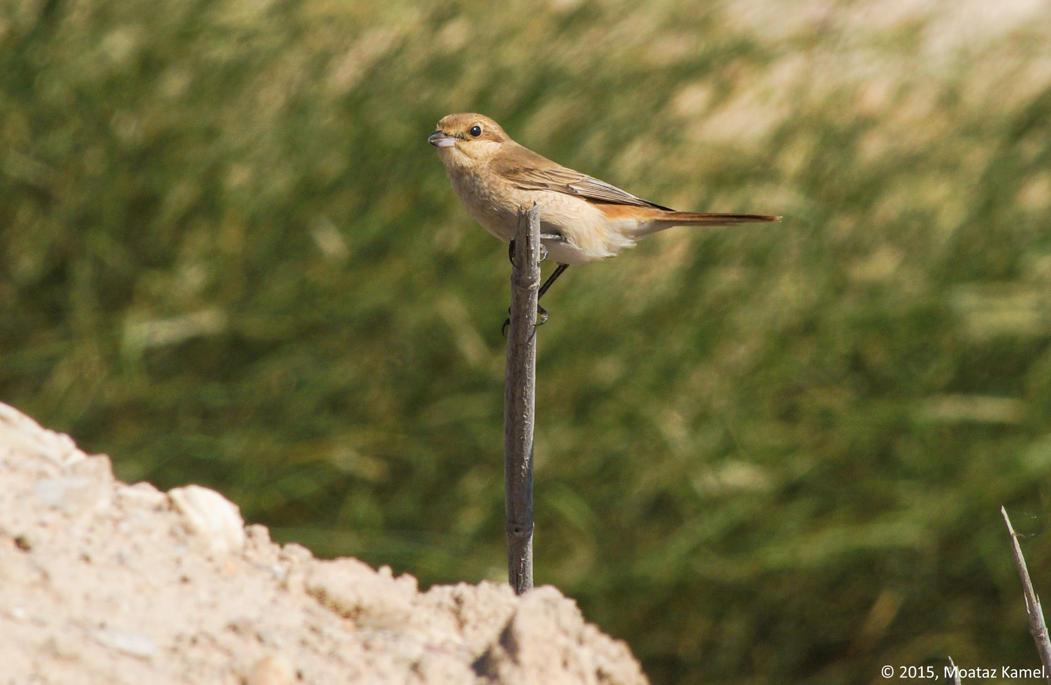 500px provided description: Living On The Edge [#nature ,#Birds ,#Qatar]